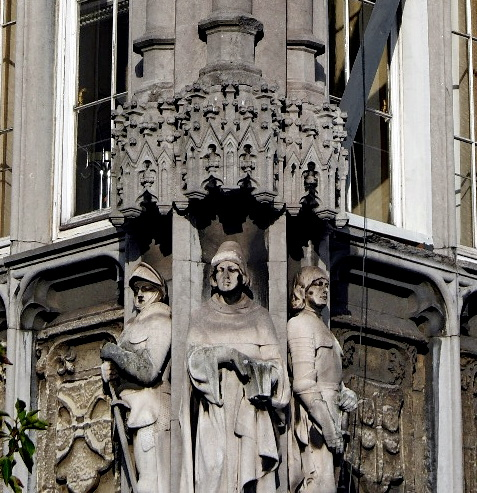 West façade of the provincial palace in Liège, Belgium Here the 19th-century statues of Henri of Horne, lord of Perwez, and local historians Jean d'Outre Meuse et Jean le Bel.